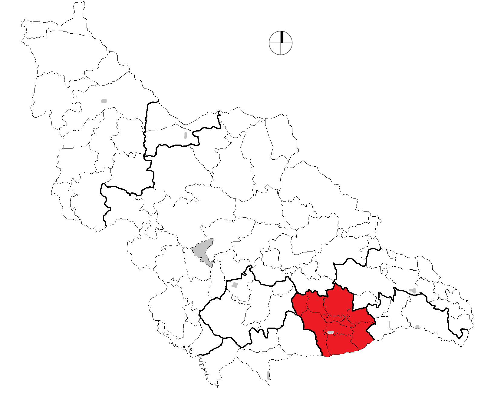 Mapa de San Isidro en Santa Rosa de Osos